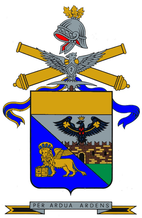 Coat of Arms of the 2º Mountain Artillery Regiment (year 1974); Italian Army.